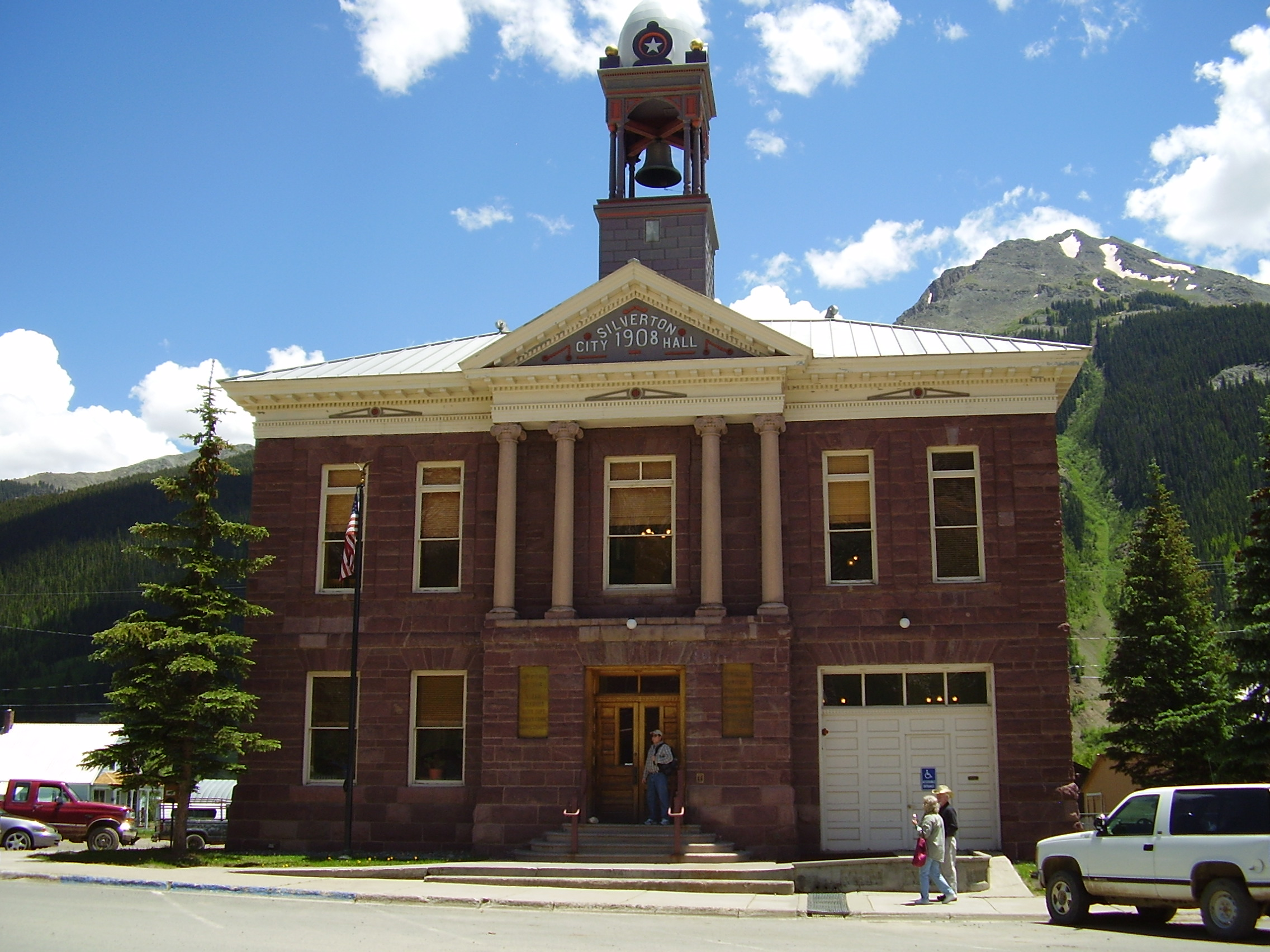 City hall of Silverton, Colorado